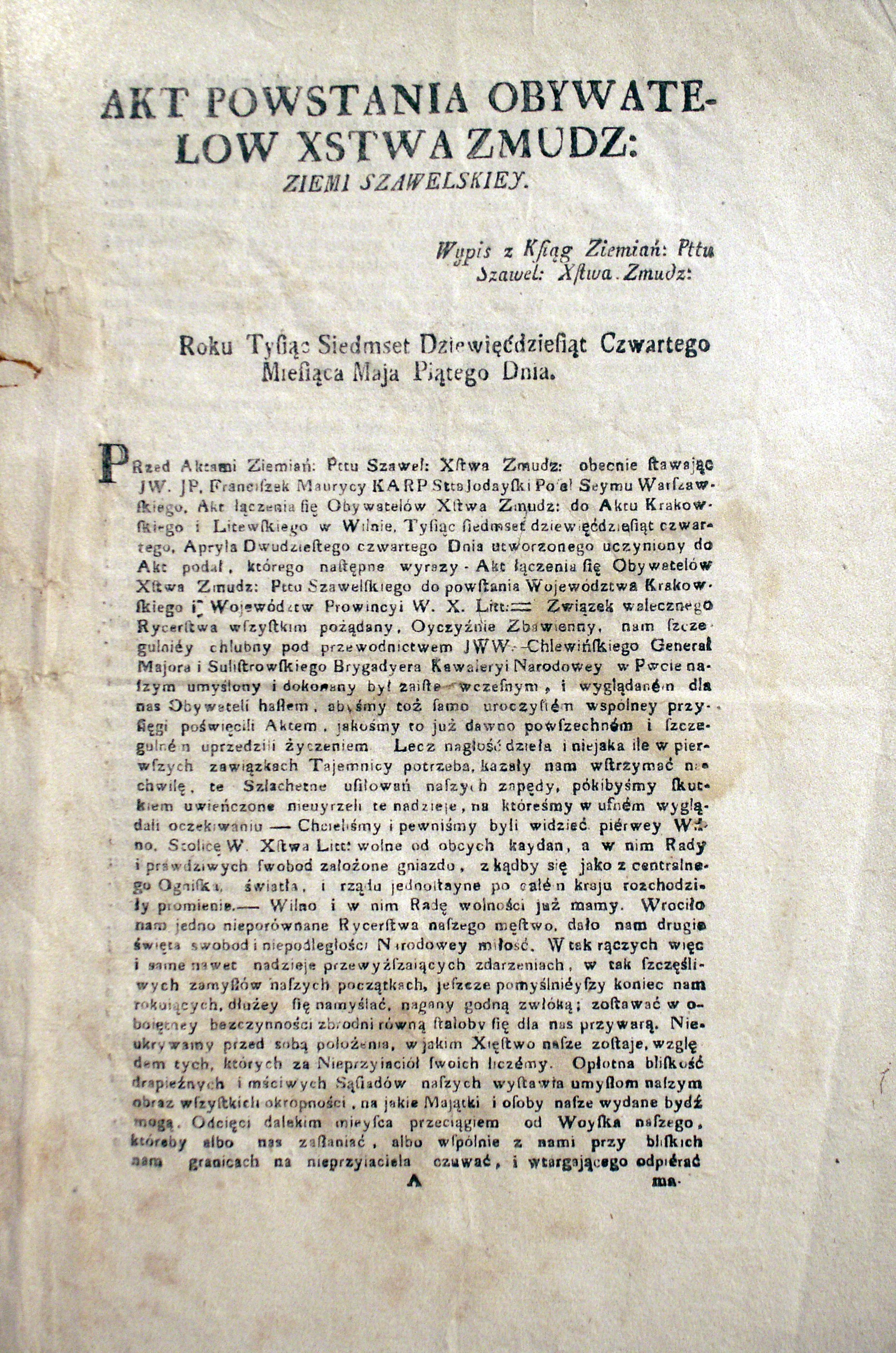 Act of Kościuszko Uprising for Šiauliai, 1794. Museum Aušra